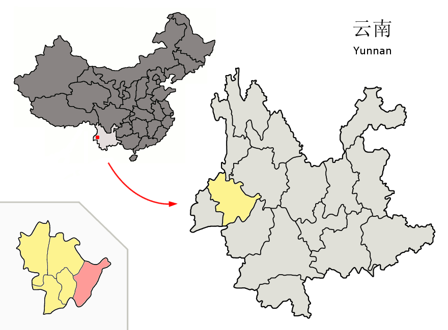 Location of Changning County (pink) and Baoshan Prefecture (yellow) within Yunnan province of China Map drawn in september 2007 using various sources, mainly : Yunnan province administrative regions GIS data: 1:1M, County level, 1990 Yunnan Counties map from